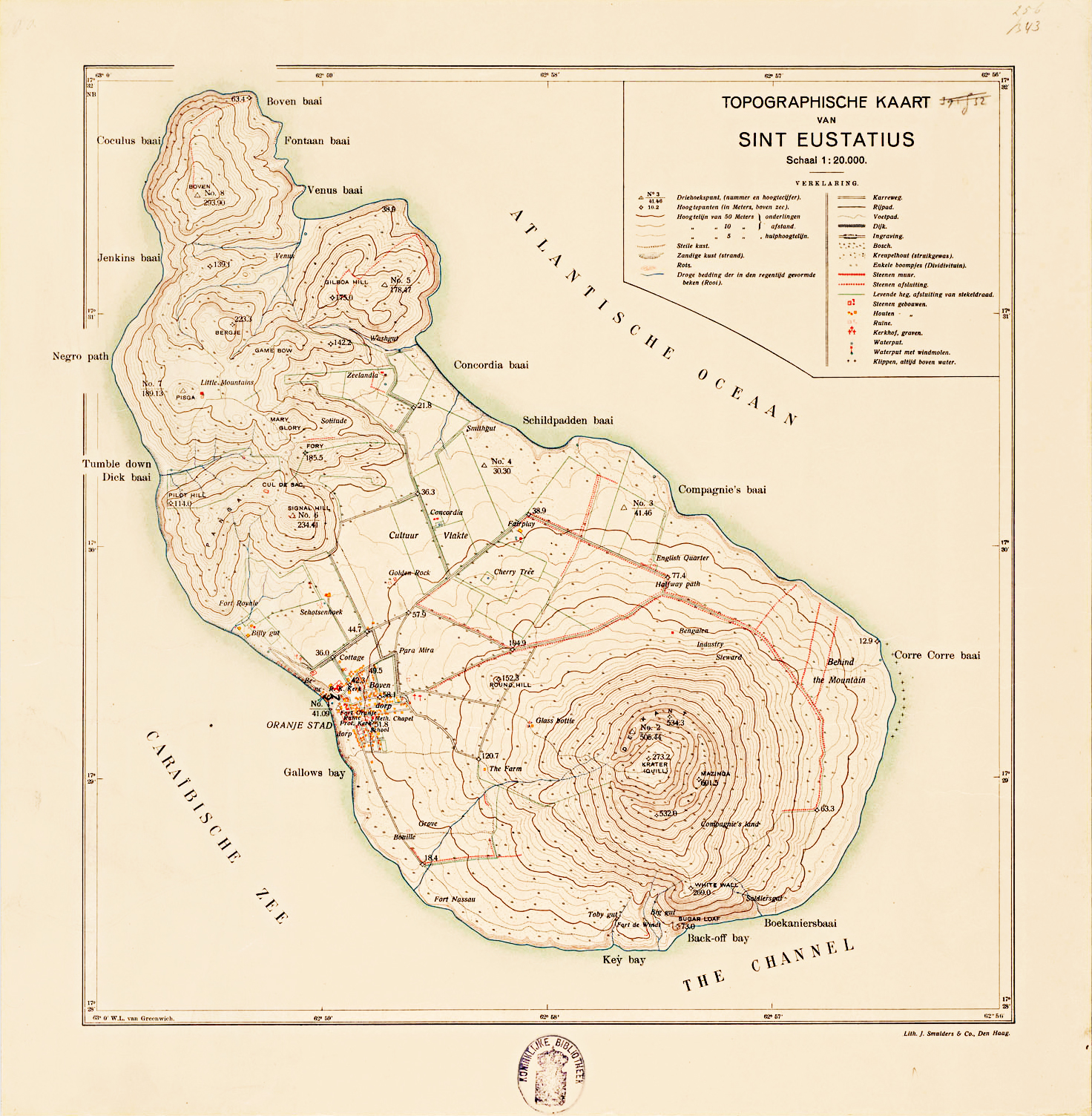 Map of Sint Eustatius, island of the Dutch West Indies (Caribbean)